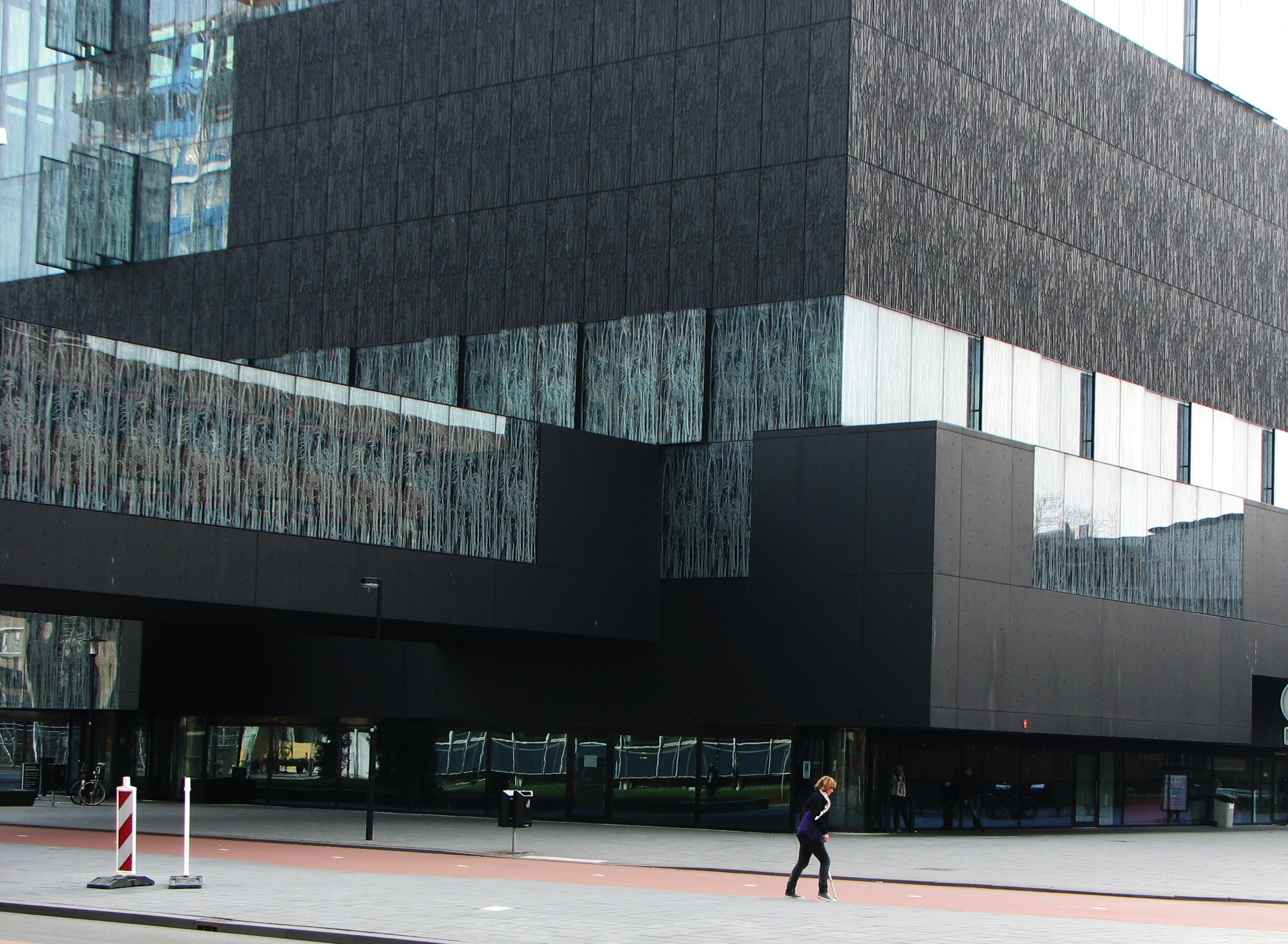 View of the Utrecht University library designed by Wiel Arets